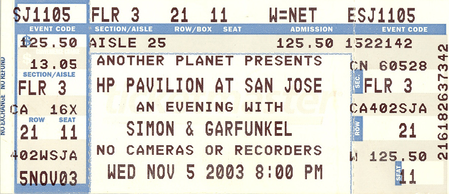 Scanned picture of a ticket for Simon and Garfunkel's concert in San José, November 5 2003.